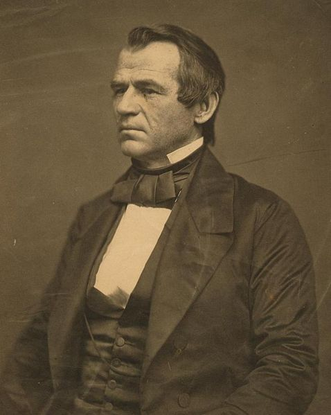 Andrew Johnson, half-length portrait, seated, facing left